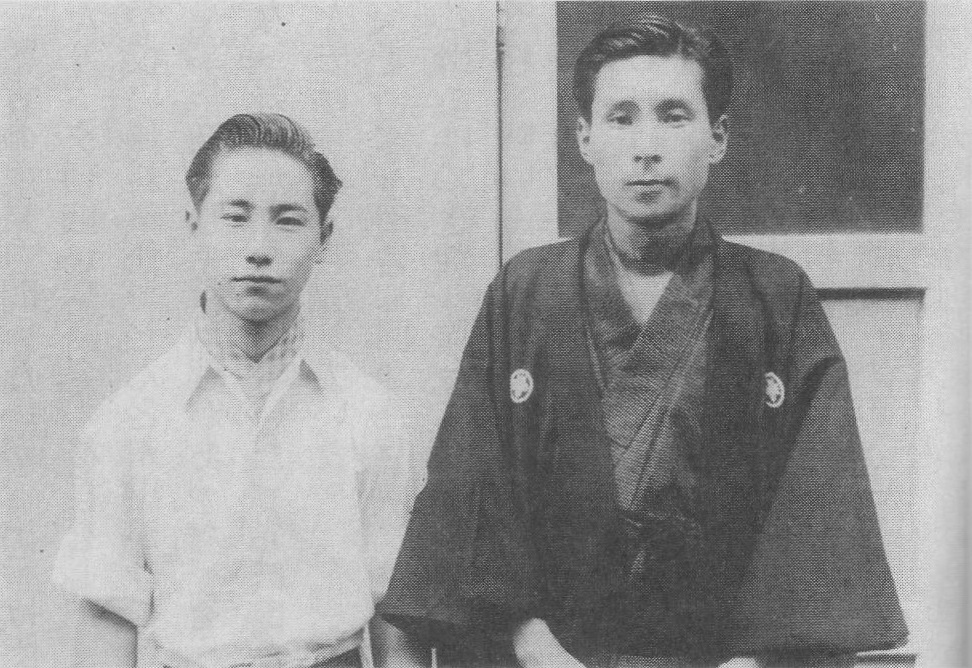 Two Rakugoka. Katsura Beicho (right) and Katsura Harudanji III (left).